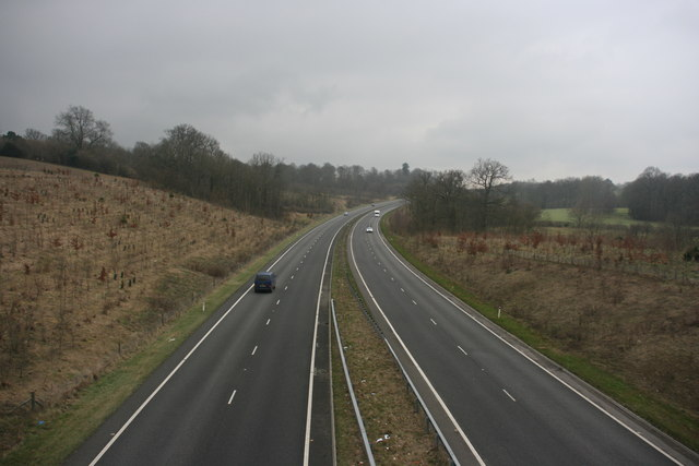 Lamberhurst by-pass (A21) heading south The A21, £19 million Lamberhurst Bypass was opened on 23 March 2005. It dramatically reduced traffic congestion for the centre of Lamberhurst village .